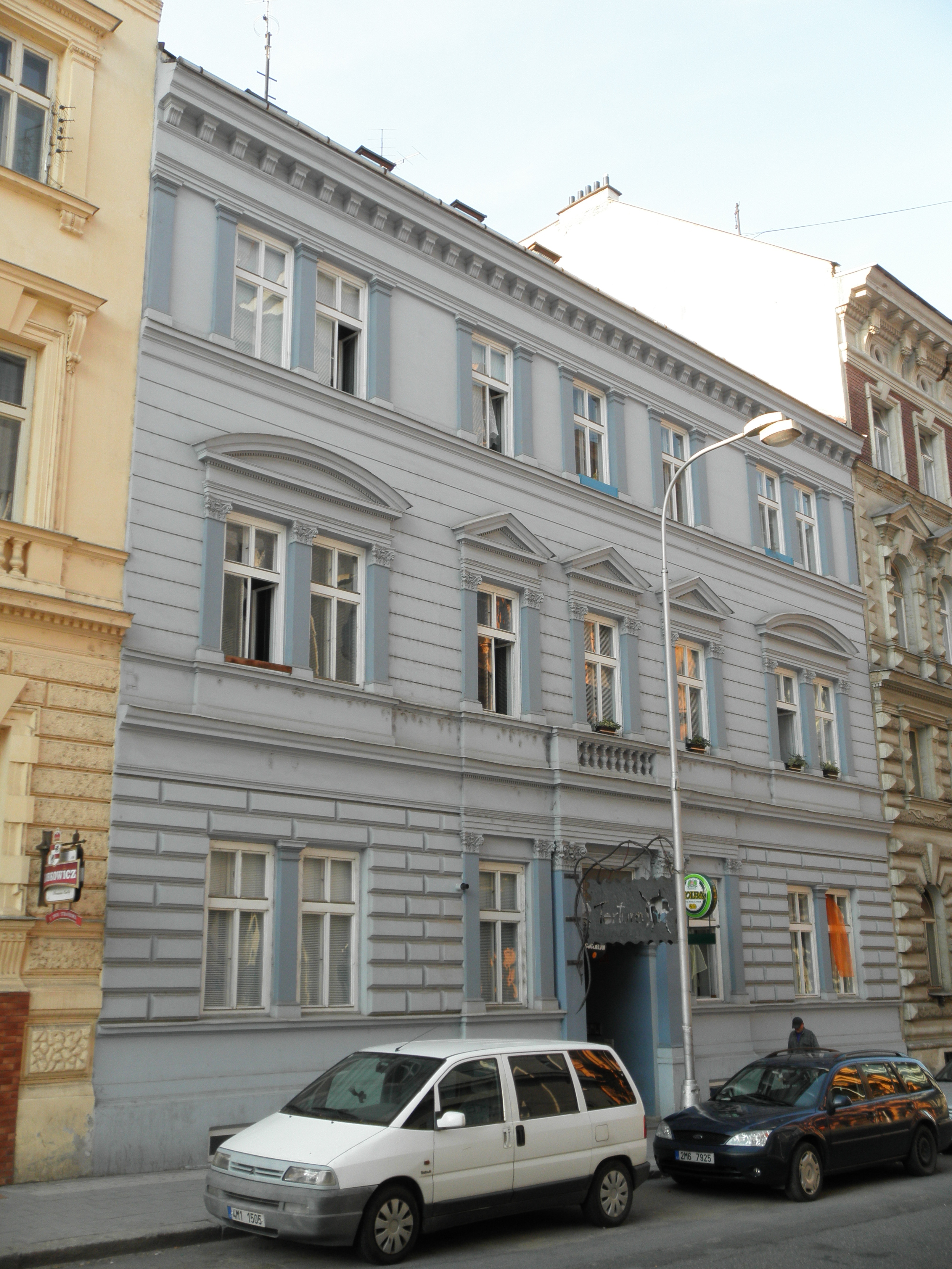 Birthplace of a Czechoslovak ice hockey and football player, Karel Pešek in Komenského 863/9 street in Olomouc, the Czech Republic.